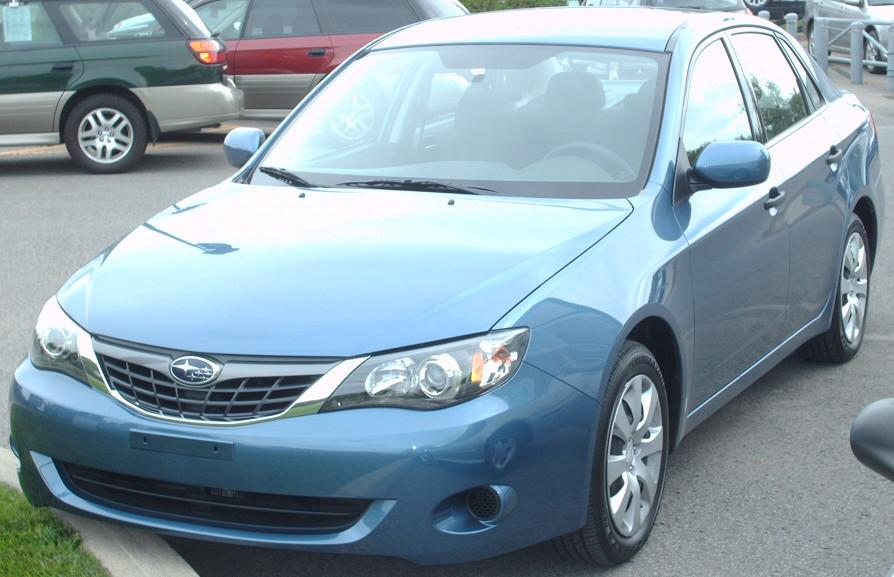 2008 Subaru Impreza photographed in Montreal, Quebec, Canada.